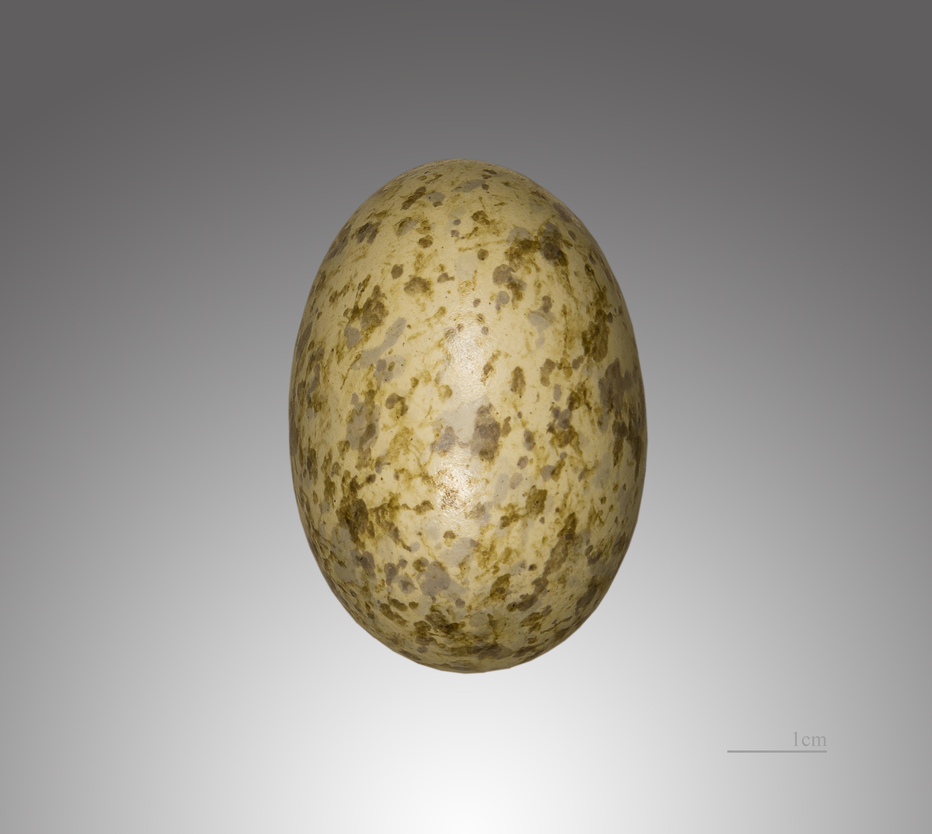 Egg of Black-bellied Sandgrouse. Collection of Jacques Perrin de Brichambaut Locality: Altai Mountains, Russia